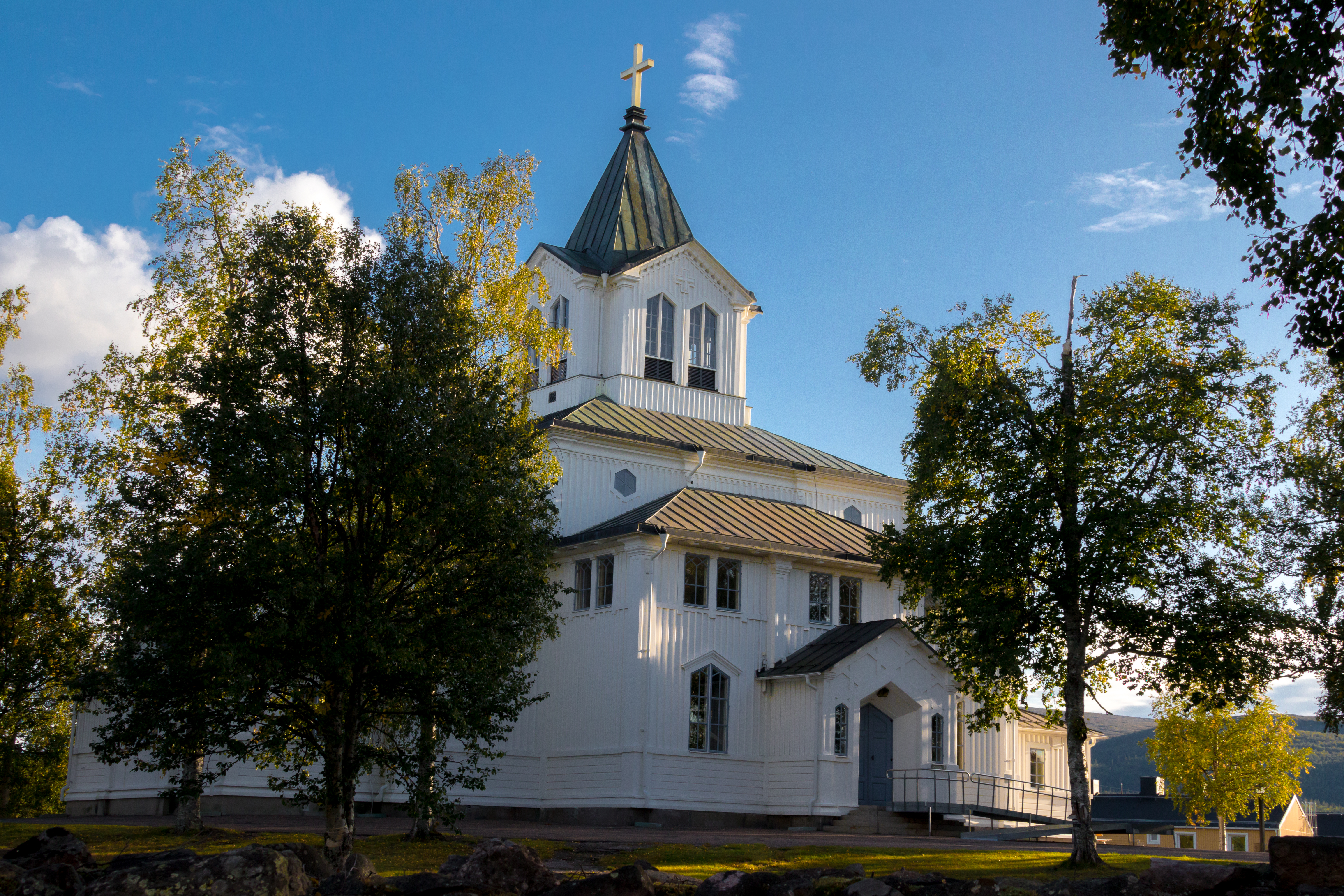 The main parish church in Gällivare, Sweden, opened in 1882.